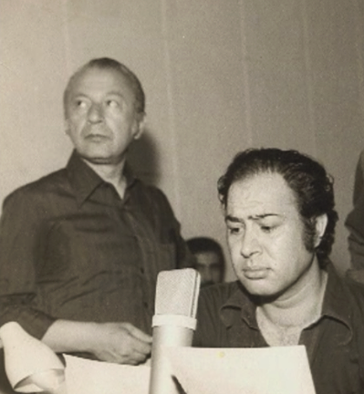 حسین عرفانی (گوینده) و علی کسمایی (مدیر دوبلاژ) در حال دوبله فیلم گوزن ها